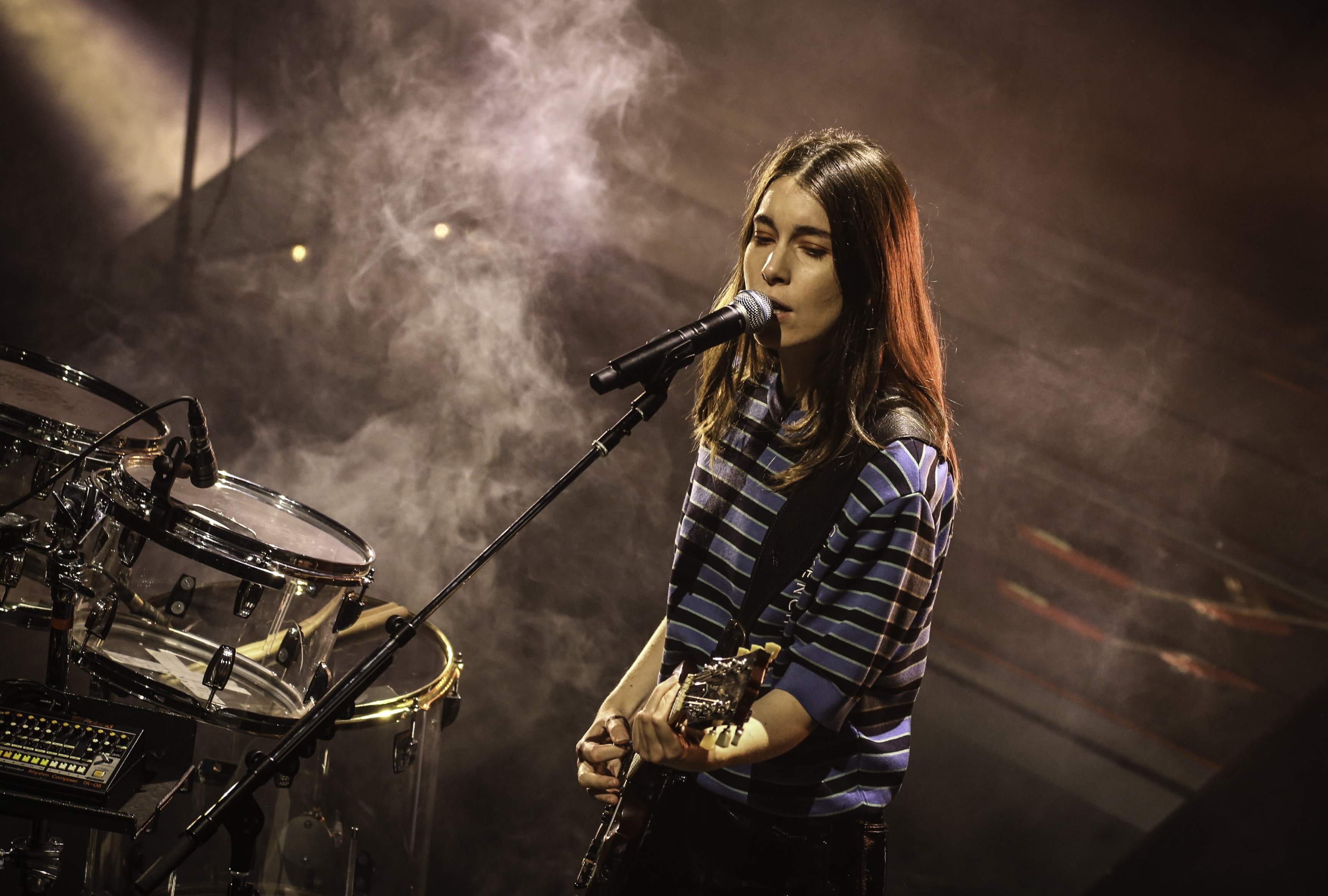 Haim - Palace Theatre - St. Paul